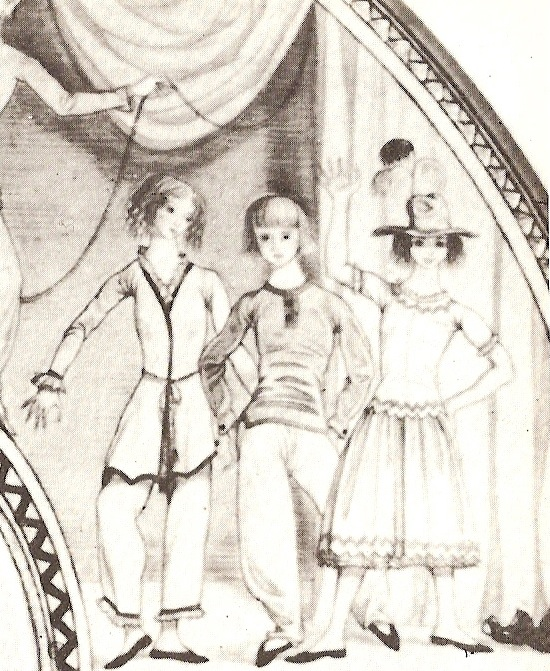 Painter Carrington as a Slade student; from a design by Albert Rutherston, 1915.